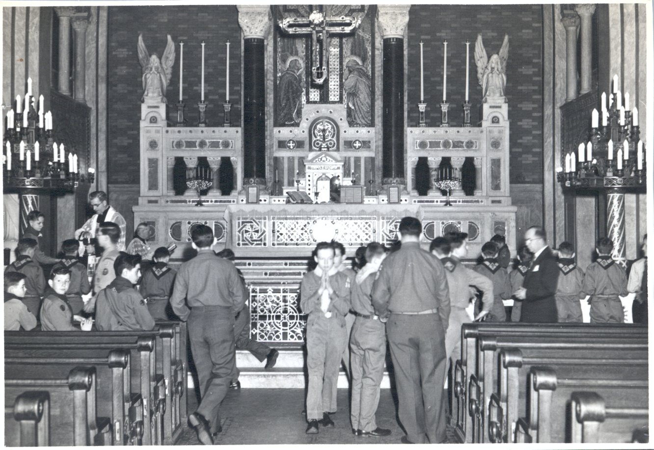 Troop 152 Scouts, Philadelphia, at Scout Sunday service at the St Francis de Sales parish (47th & Springfield, Philadelphia), 1949